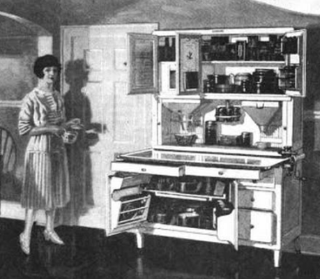 This is a crop of an advertisement by Hoosier Manufacturing Company for its Hoosier Cabinet found on page 141 of the Saturday Evening Post, October 7, 1922.